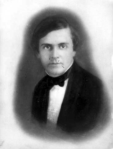 Portrait of James Wickes Taylor